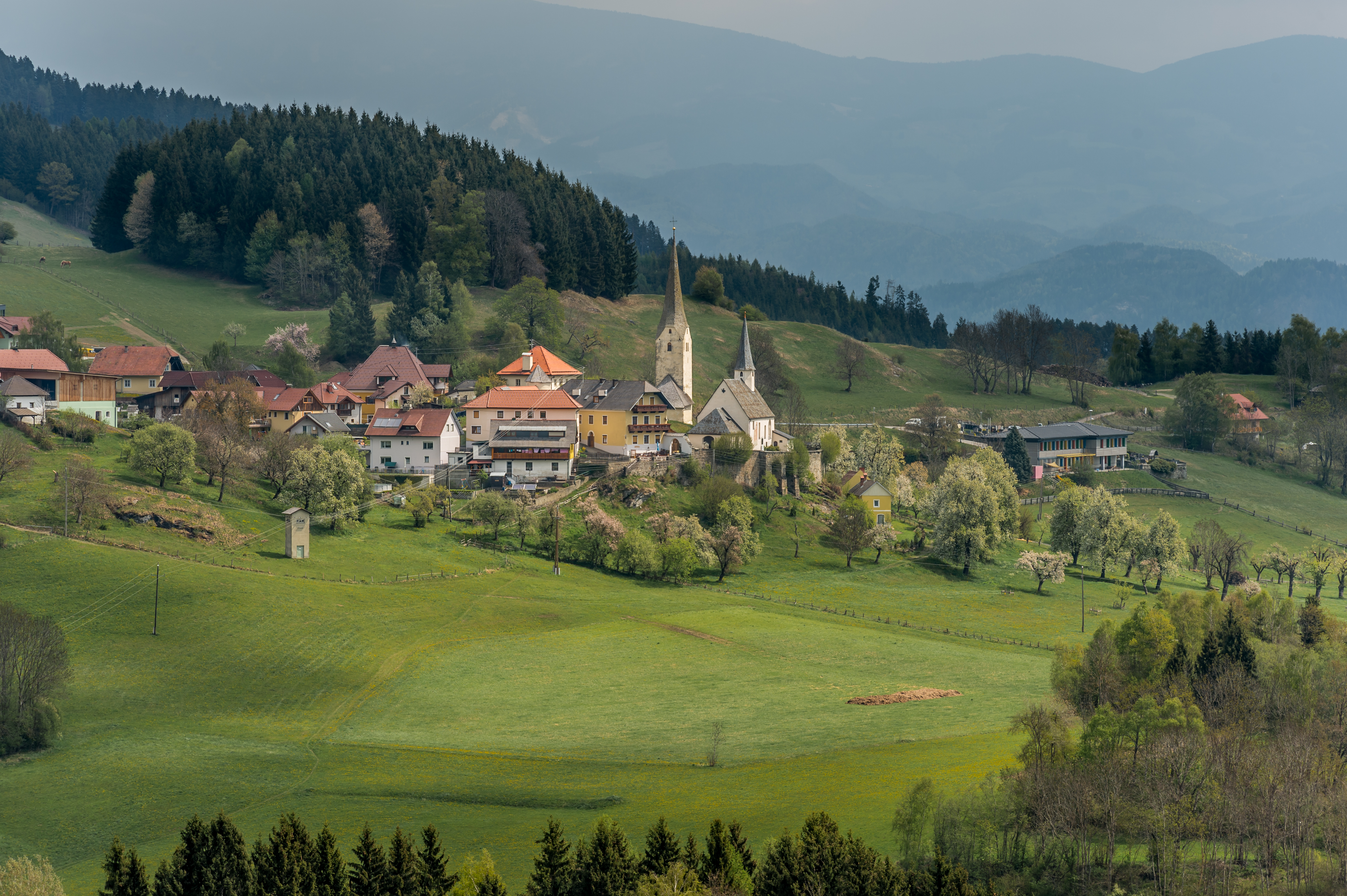 Western view of the fortified village Sörg with the parish church Saint Martin, market town Liebenfels, district Sankt Veit, Carinthia, Austria, EU